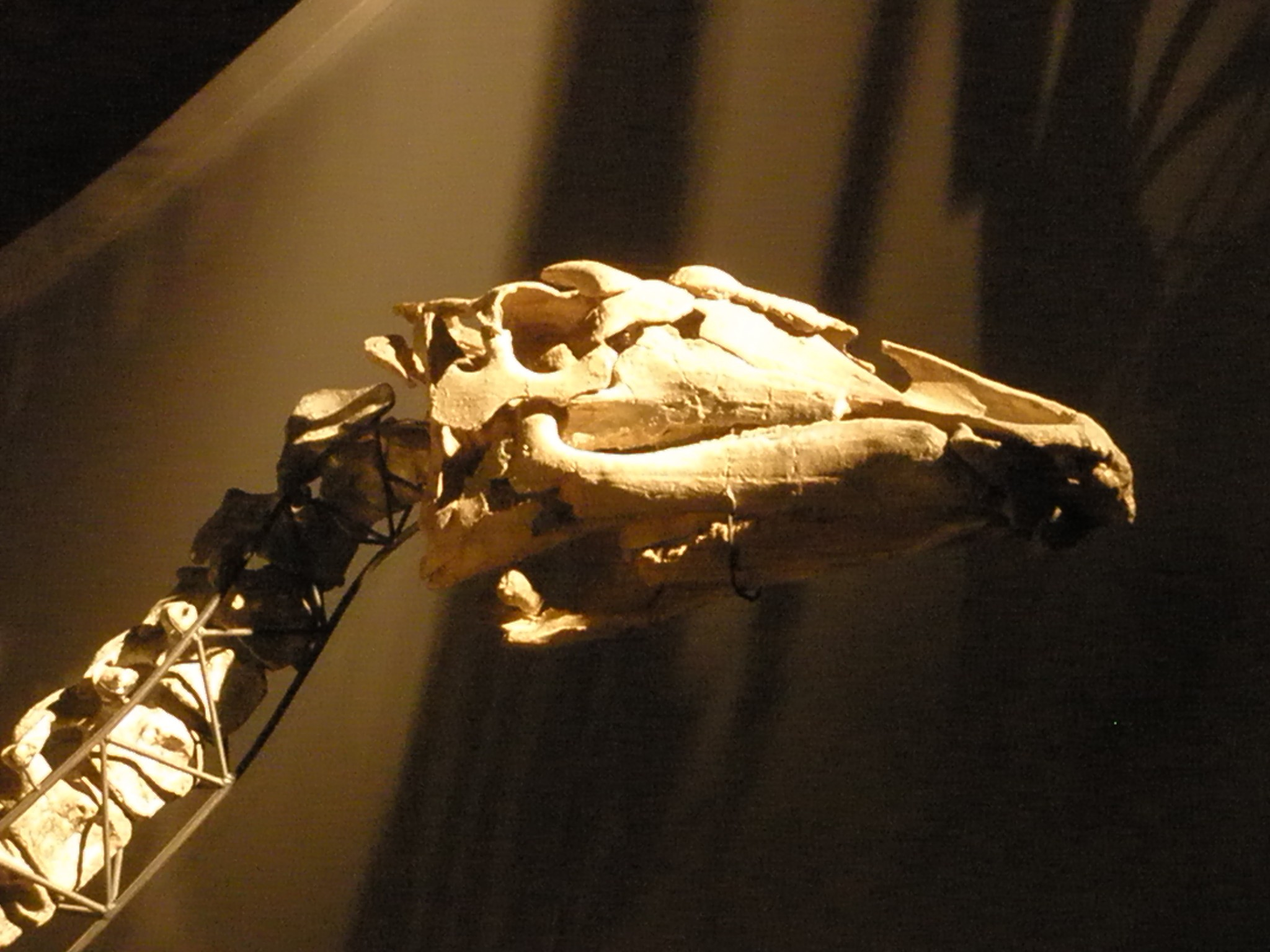 Took the photo at Museo di Storia Naturale di Venezia